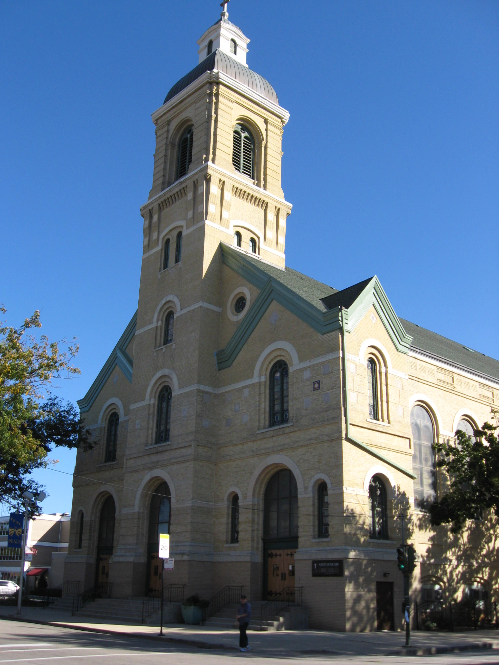 653 West 37th Street, Chicago, IL 60609